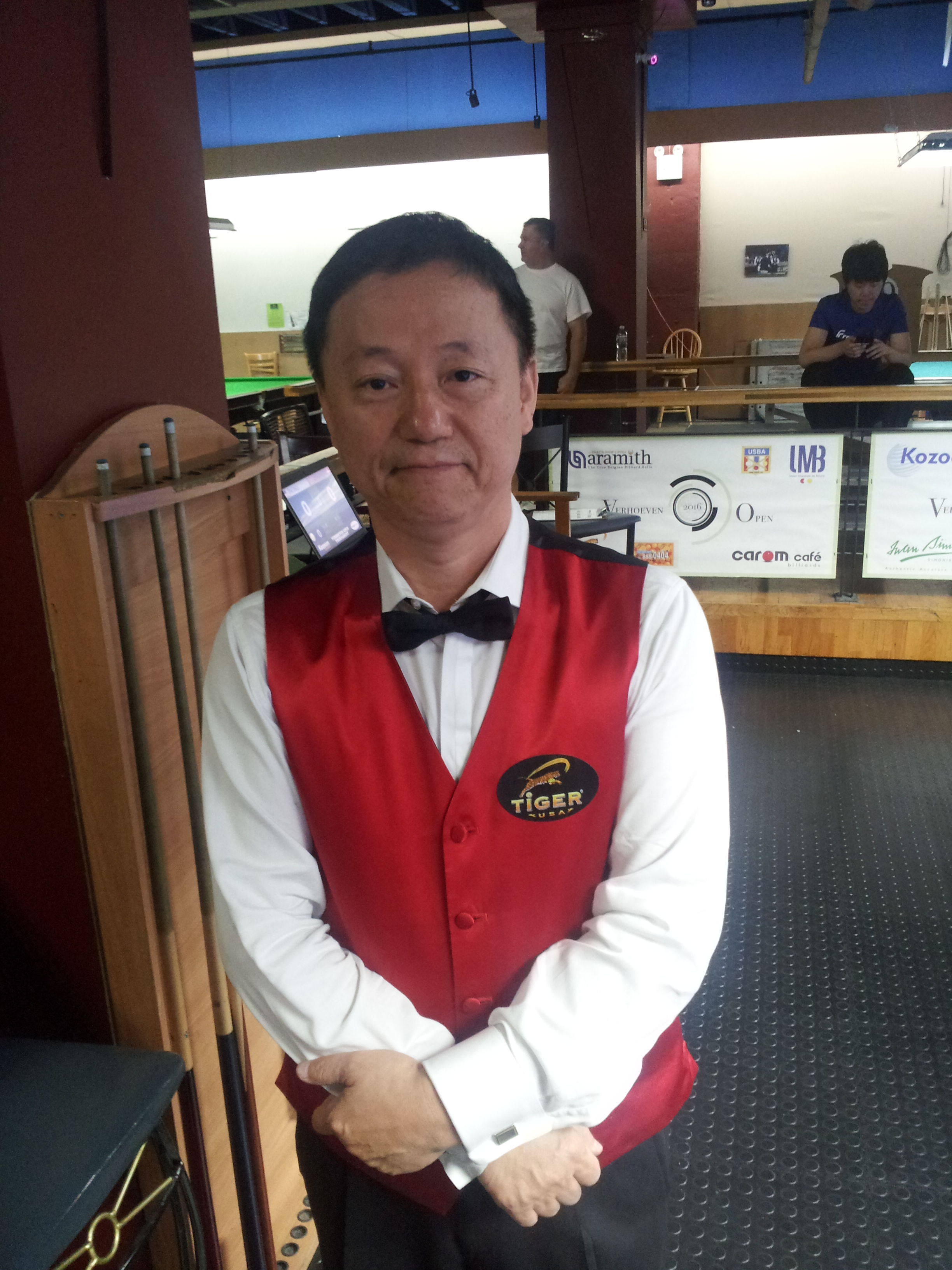 Verhoeven Open 2016. 3-Cushion Tournament at the Carom Café in New York City.